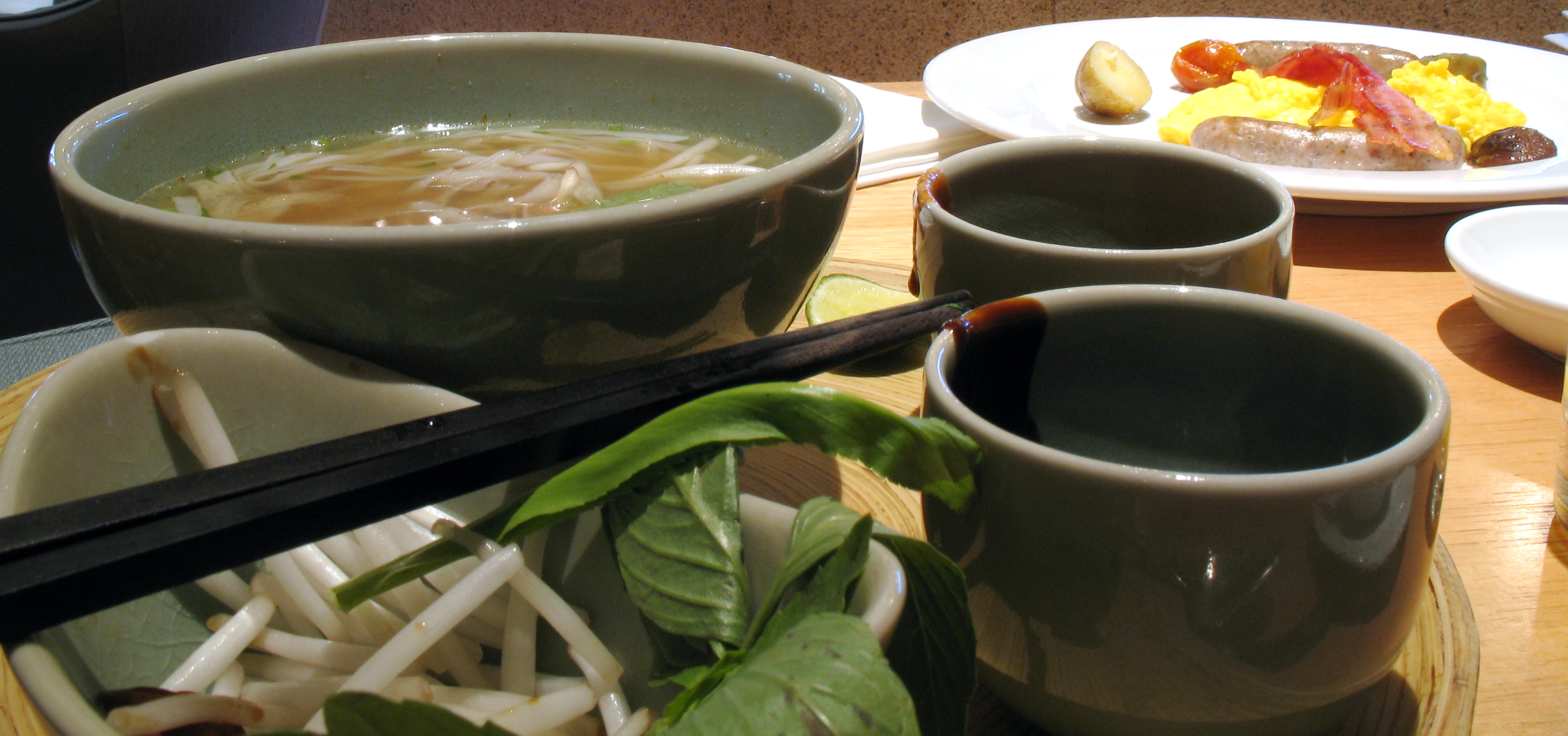 A traditional Vietnamese breakfast in the foreground and a standard western breakky in the background. Both mine.